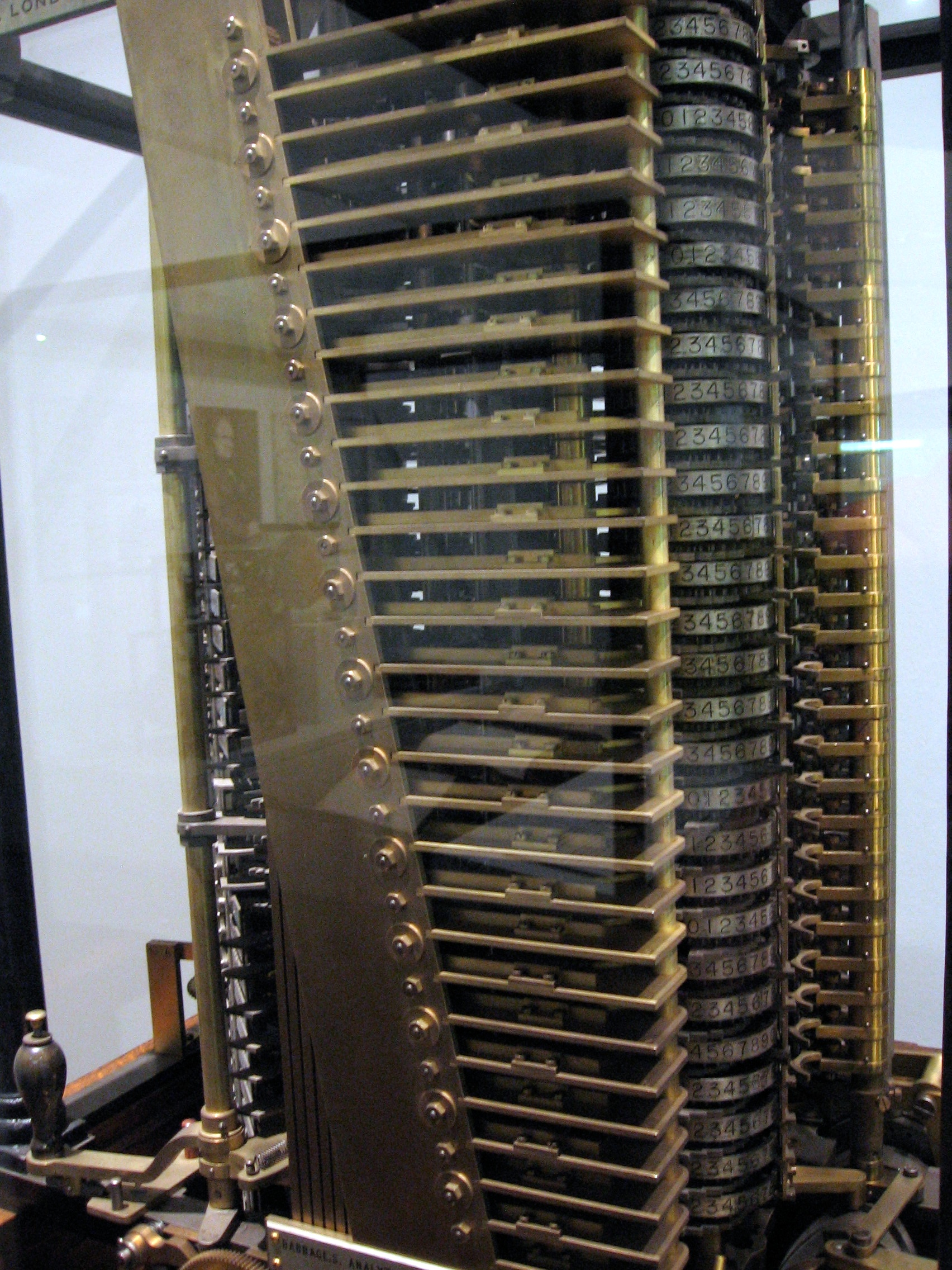 Modern model of Charles Babbage's Analytical Engine displayed at the Science Museum, London. “ The Analytical Engine - the world's first mechanical computer - was invented by Charles Babbage in 1834. It was his most visionary idea, and this small section was under construction when he died. Like modern computers, the Analytical Engine has a processor, a memory and a way to input information and output results. The Analytical Engine would have been programmed using punched cards an idea babbage took from looms used to weave patterned cloth. The machine could store numbers and results in its memory, and process them in its mill. Babbage also planned that the machine would be able to do several calculations at once - what we now call parallel processing. Babbage hoped to fund his Analytical Engine by writing a novel, or even by creating a machine to play noughts and crosses for cash. If he had finished the Analytical Engine it would have been over 4 metres tall and 6 metres long, and probably powered by steam. source ”